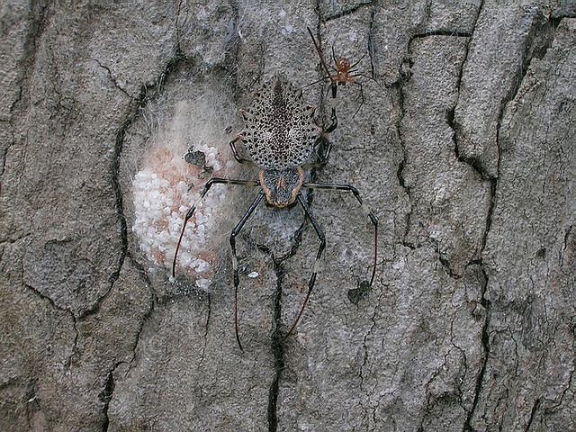 H. ornatissima (Fluted Orb) from the Billigiri Rangan Hills, Karnataka.